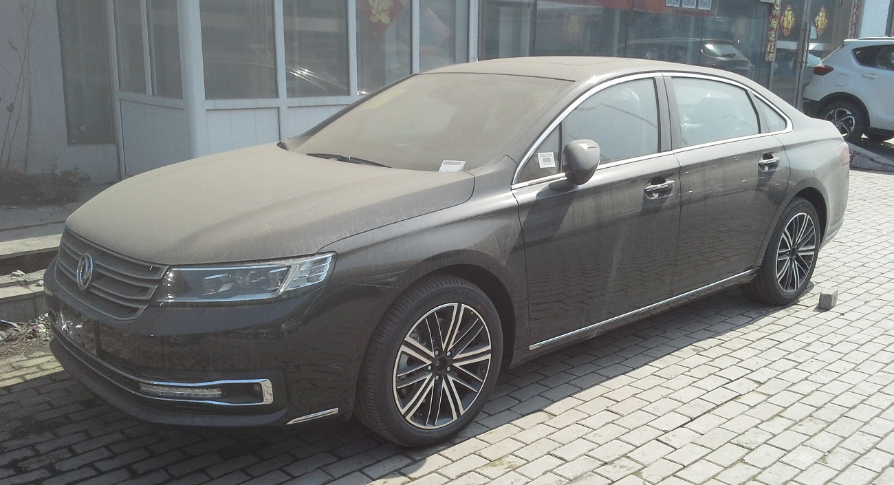 Dongfeng Aeolus A9 photographed in Harbin, Heilongjiang province, China.